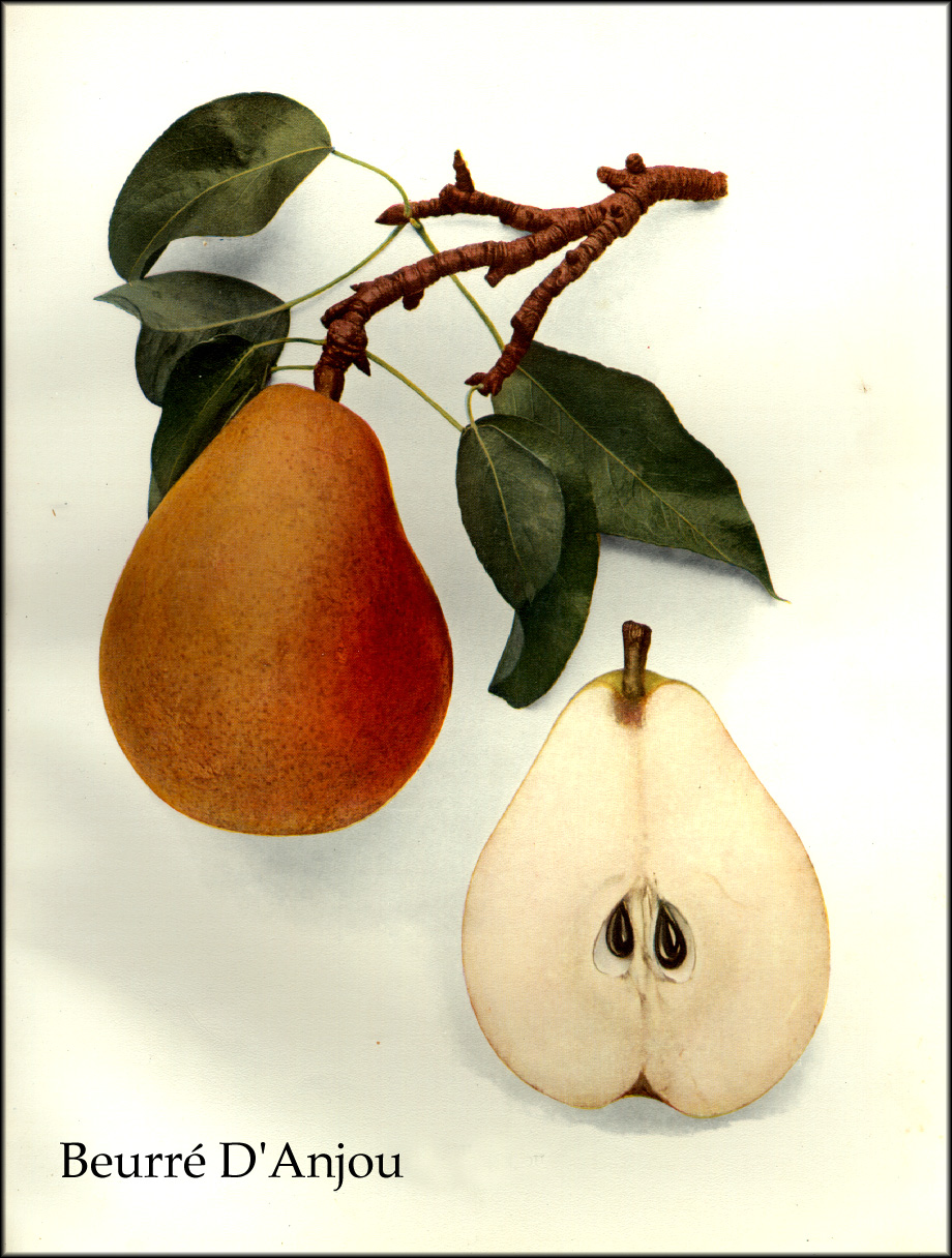 A colour plate from The Pears of New York (1921) depicting the Beurré d'Anjou pear cultivar.